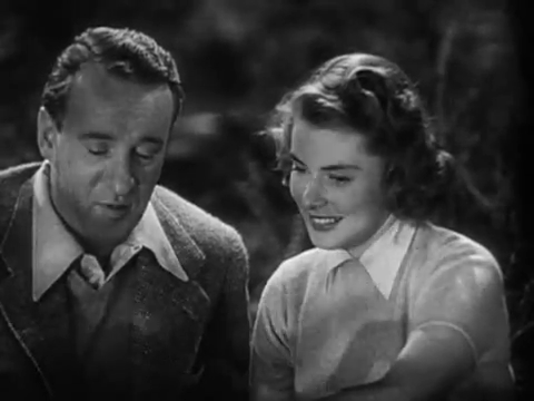 Ingrid Bergman and George Sanders in Rage in Heaven, by W.S. Van Dyke, Robert B. Sinclair and Richard Thorpe (1941)